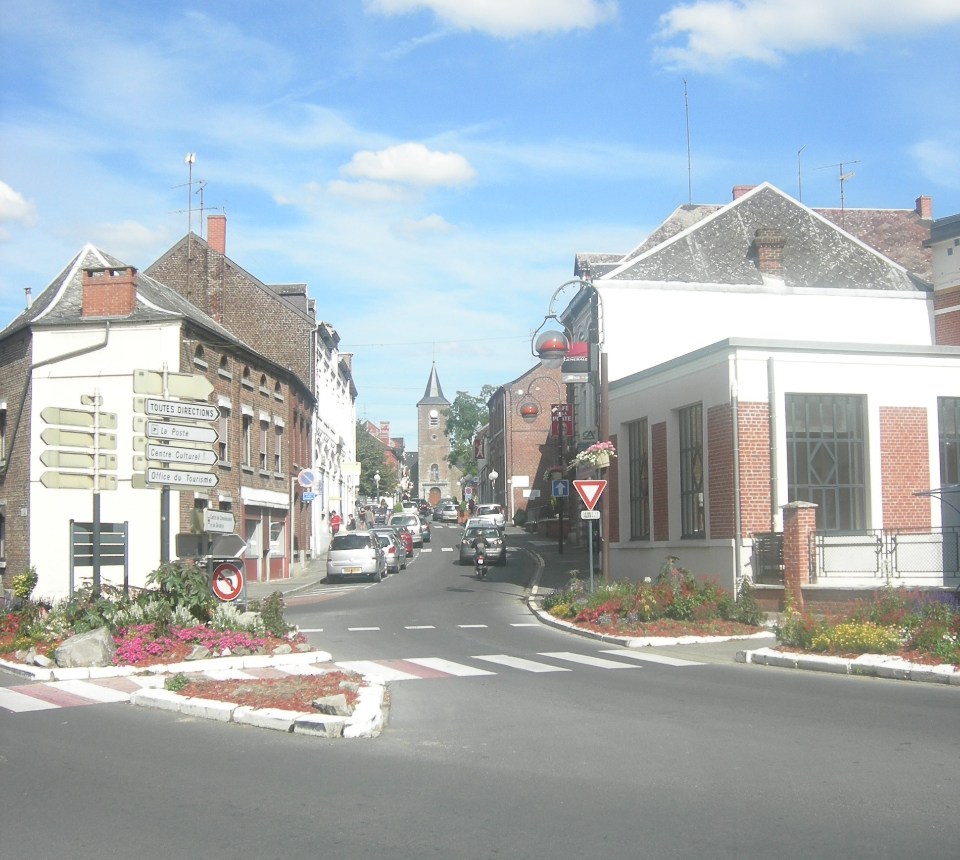 Town centre of Jeumont(France)